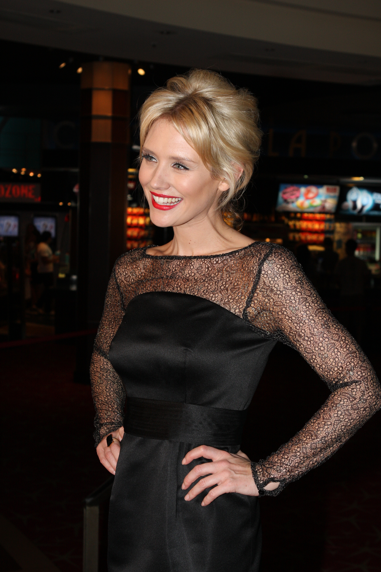 Actress Nicky Whelen in February 2011.